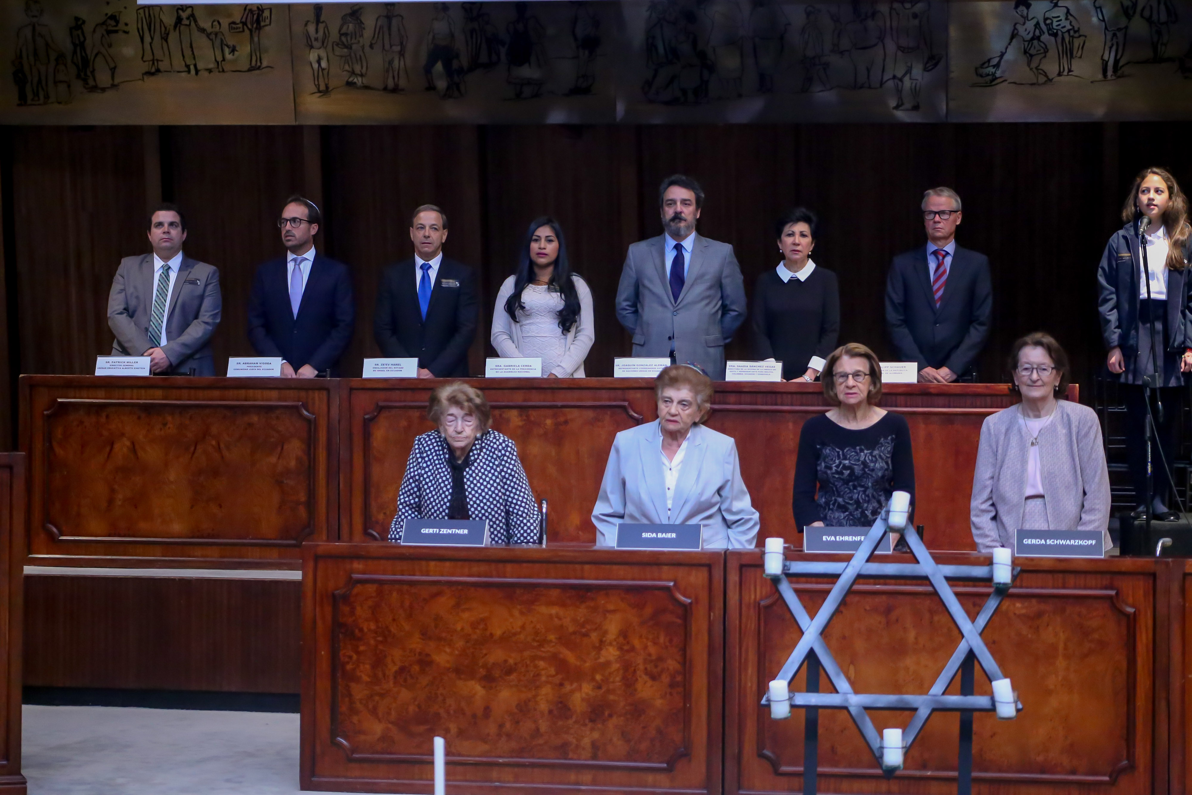 Quito, January 24, 2020. The Embassies of Israel and Germany in Ecuador initiated the event to commemorate the International Holocaust Remembrance Day, in this event Assemblywoman Gabriela Cerda participated. Photo Fernando Sandoval / National Assembly.